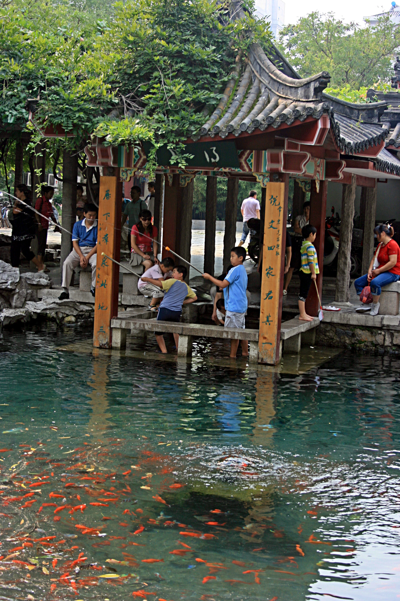 Photograph of a pavilion in the Five Dragon Pool Public Park in Jinan, Shandong Province, China.